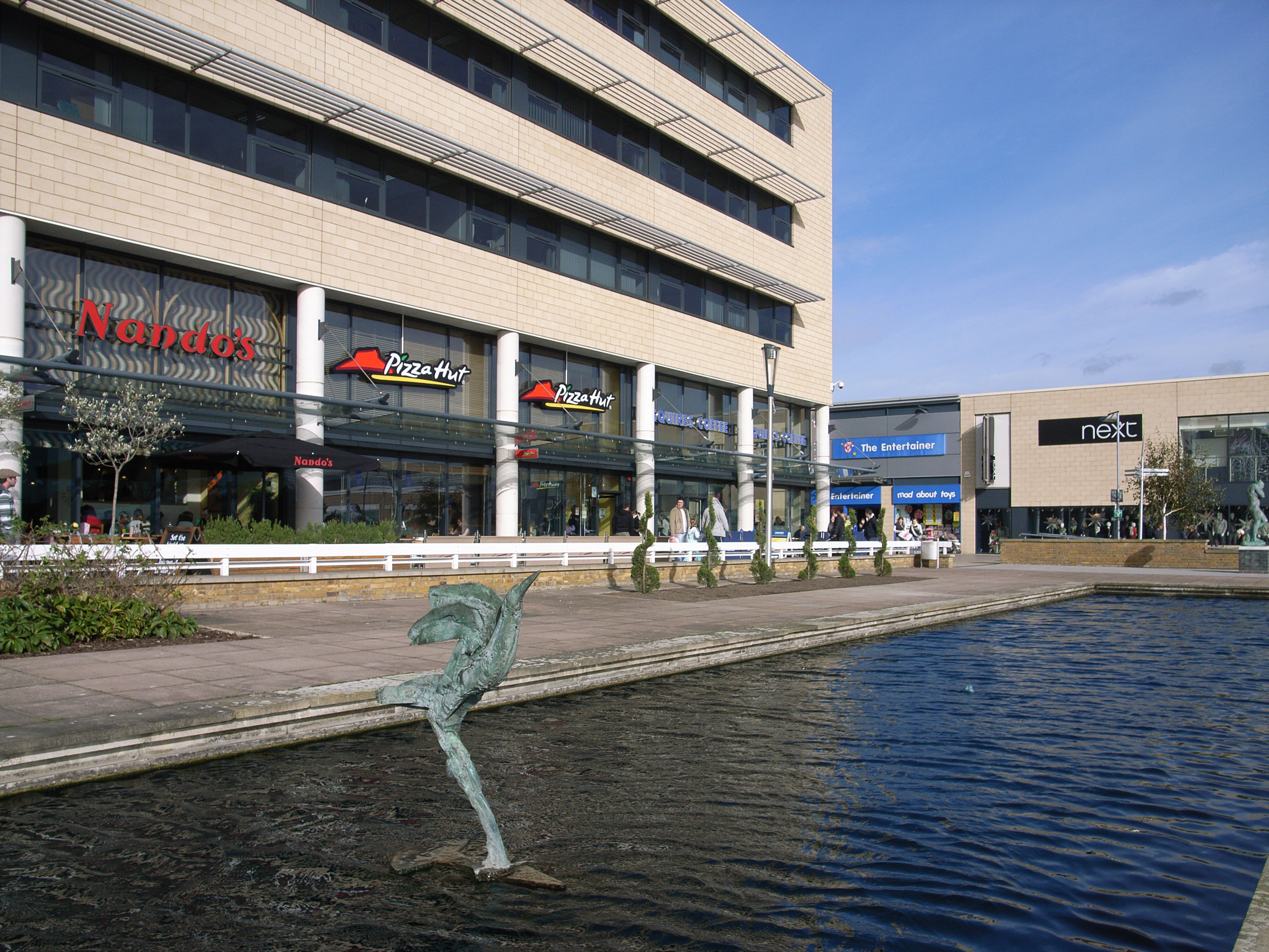 'Bird' (1985) by Hebe Comerford, the Water Gardens, Harlow. The Water Gardens (1960-3), Harlow, Essex by Frederick Gibberd and Gerry Perrin, with sculpture by William Mitchell. Photo taken on a tour of Frederick Gibberd's work in London and Harlow with the 20th Century Society.